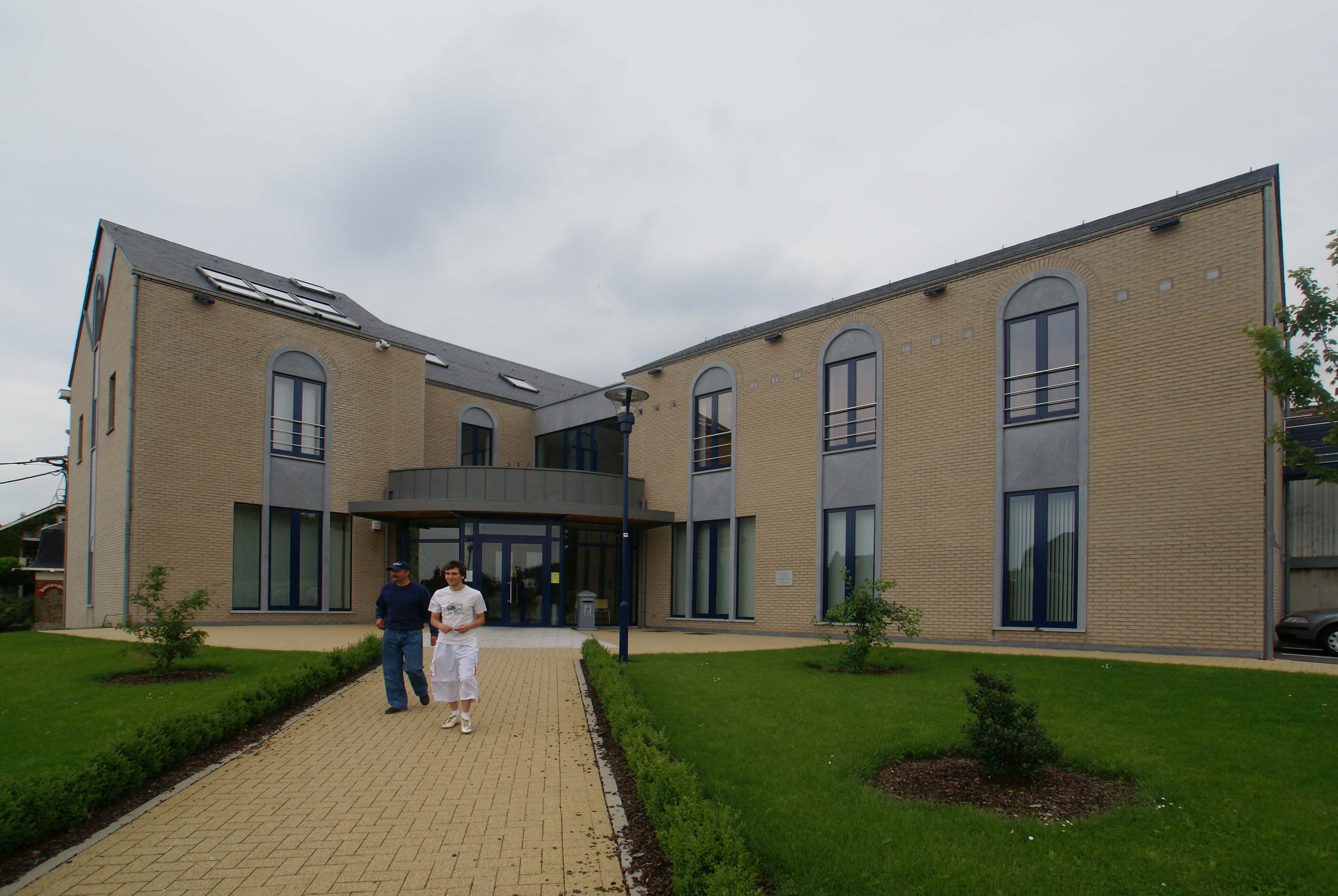 Jalhay (Belgium): Town Hall